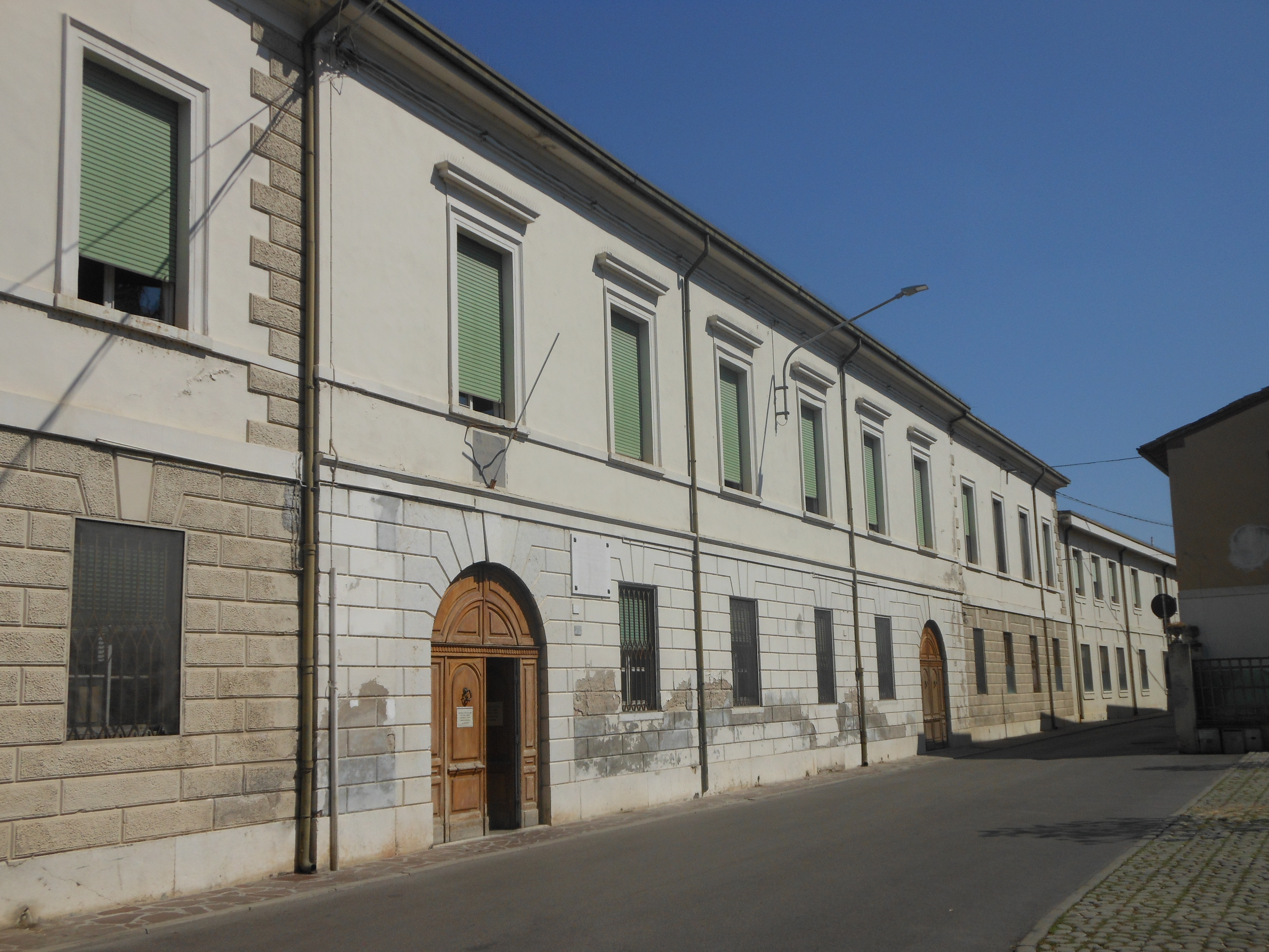 Ospedale di Asola - ala vecchia